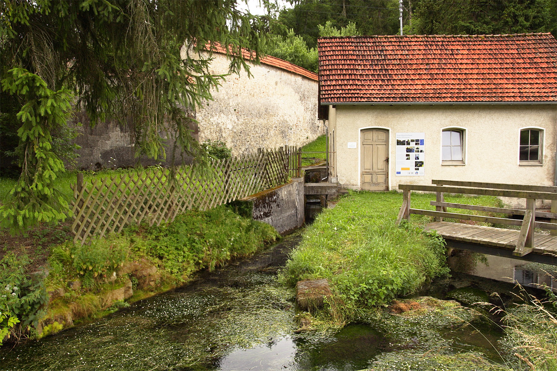 Old, small hydroelectric powerstation in Offenhausen (Gomadingen), Swabian Alb, which generatedelectricity from 1955-1976. Behind the wall of a former women’s monastery| lies the beautiful lake of the karst spring of the Große Lauter. A private initiative restored the plant. Since 2006 the powerstation generates electricity again.